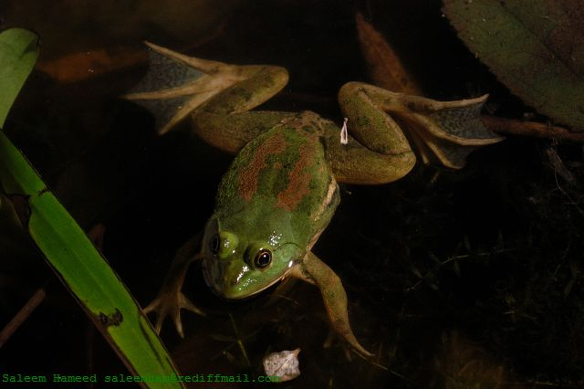 Euphlyctis hexadactylus, India